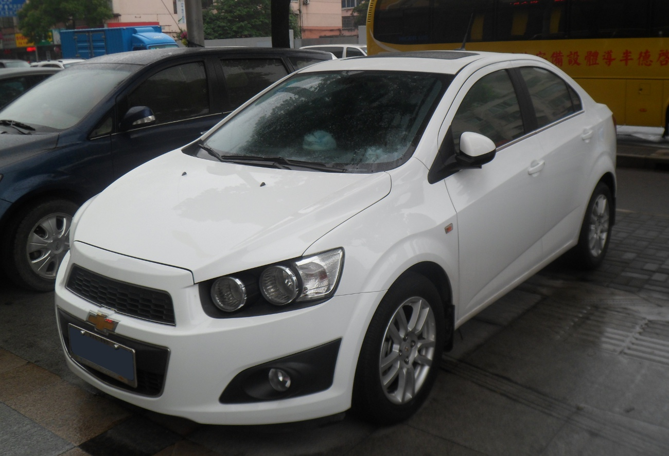 Chevrolet Aveo T300 sedan photographed in Shanghai, China.